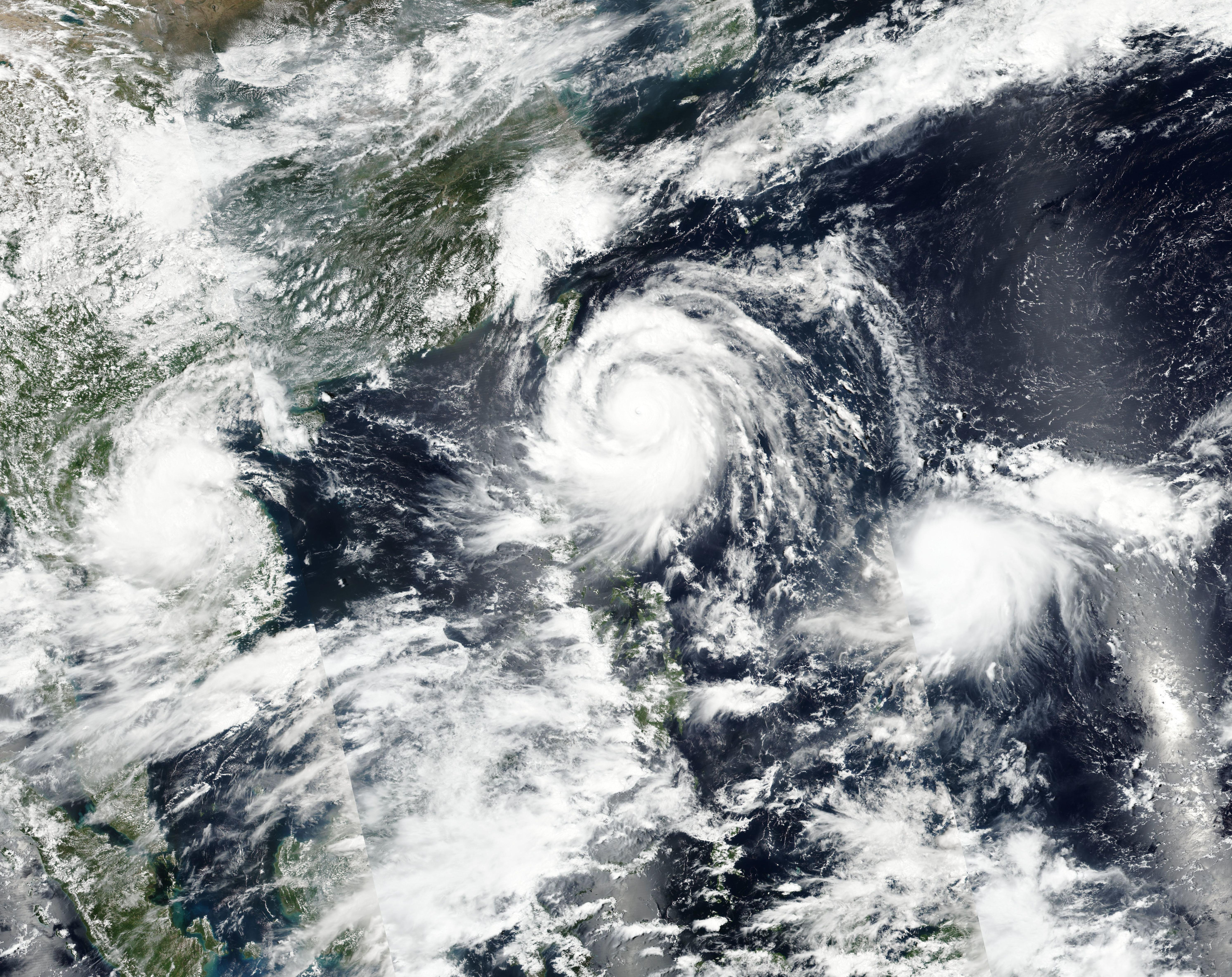 A mid-September trio of storms during September 13: from left to right, Tropical Storm Rai (19W), Typhoon Meranti (16W) and Tropical Storm Malakas (18W)